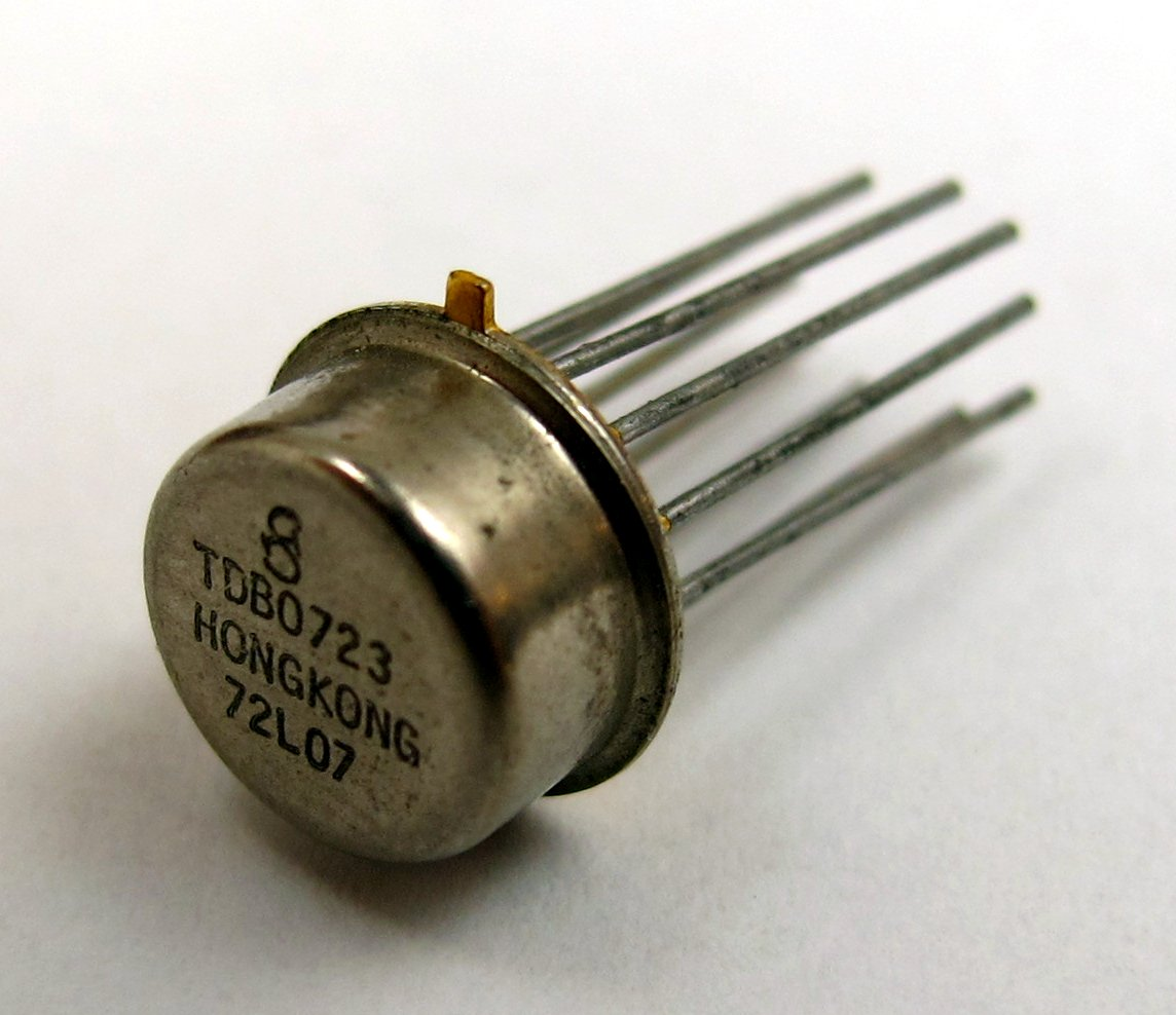 TO-78 Metal Can IC Package with 8 Pins (TDBO723)